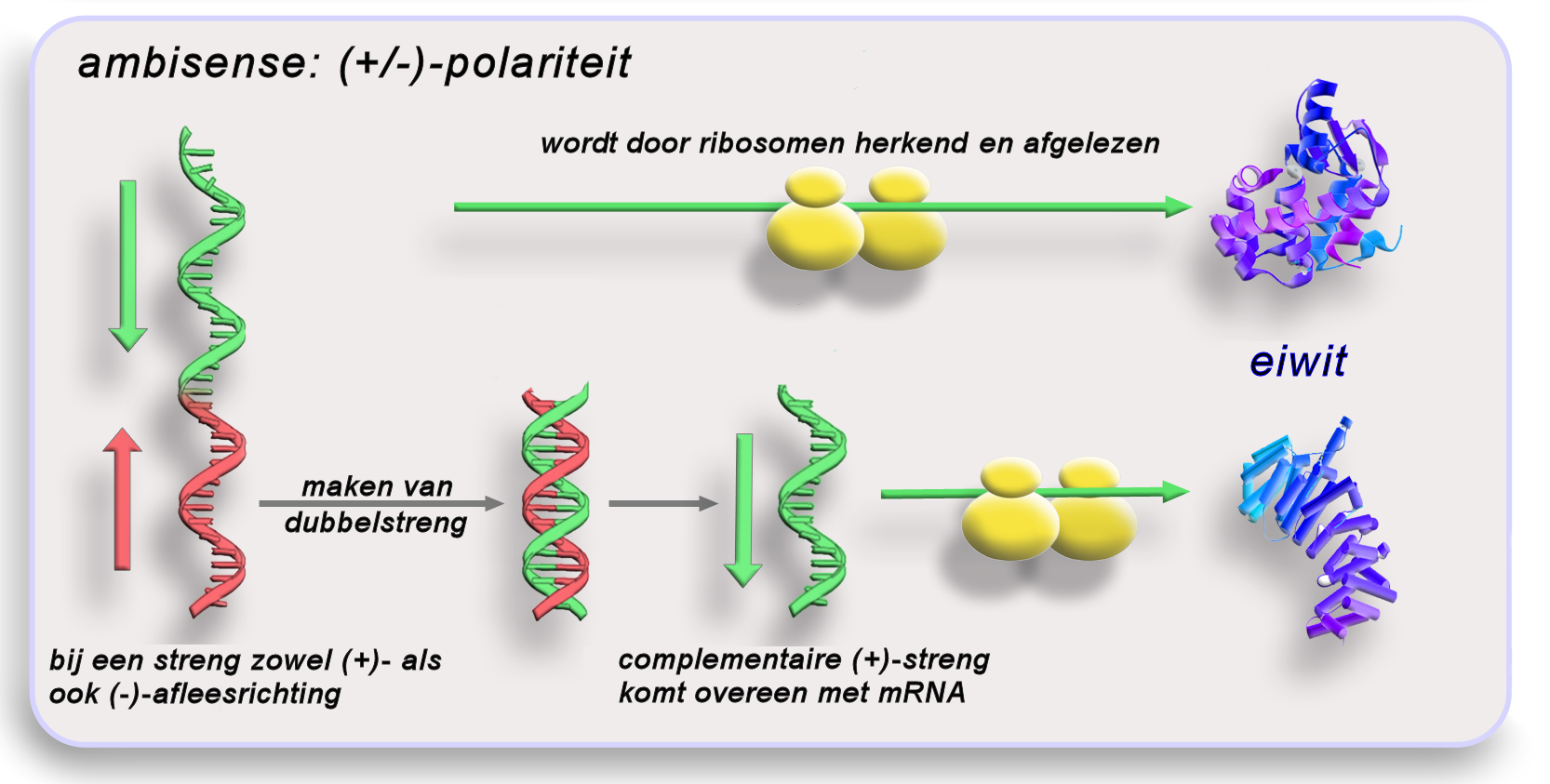 Now with Dutch txt